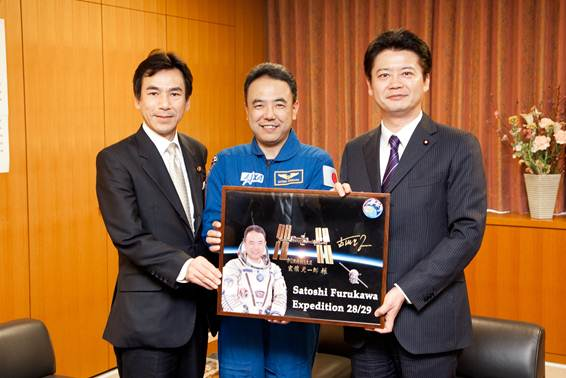 Satoshi Furukawa, astronaut of Japan Aerospace Exploration Agency, met Kōichirō Gemba, Minister of State for Science and Technology Policy, with Yukihiko Akutsu, Parliamentary Secretary of Cabinet Office, on February 25, 2011.